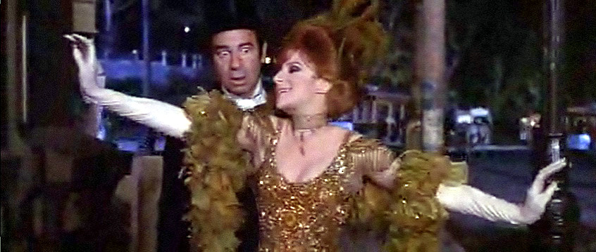 Screenshot of Walter Matthau and Barbra Streisand from the trailer for the film Hello, Dolly! (film)